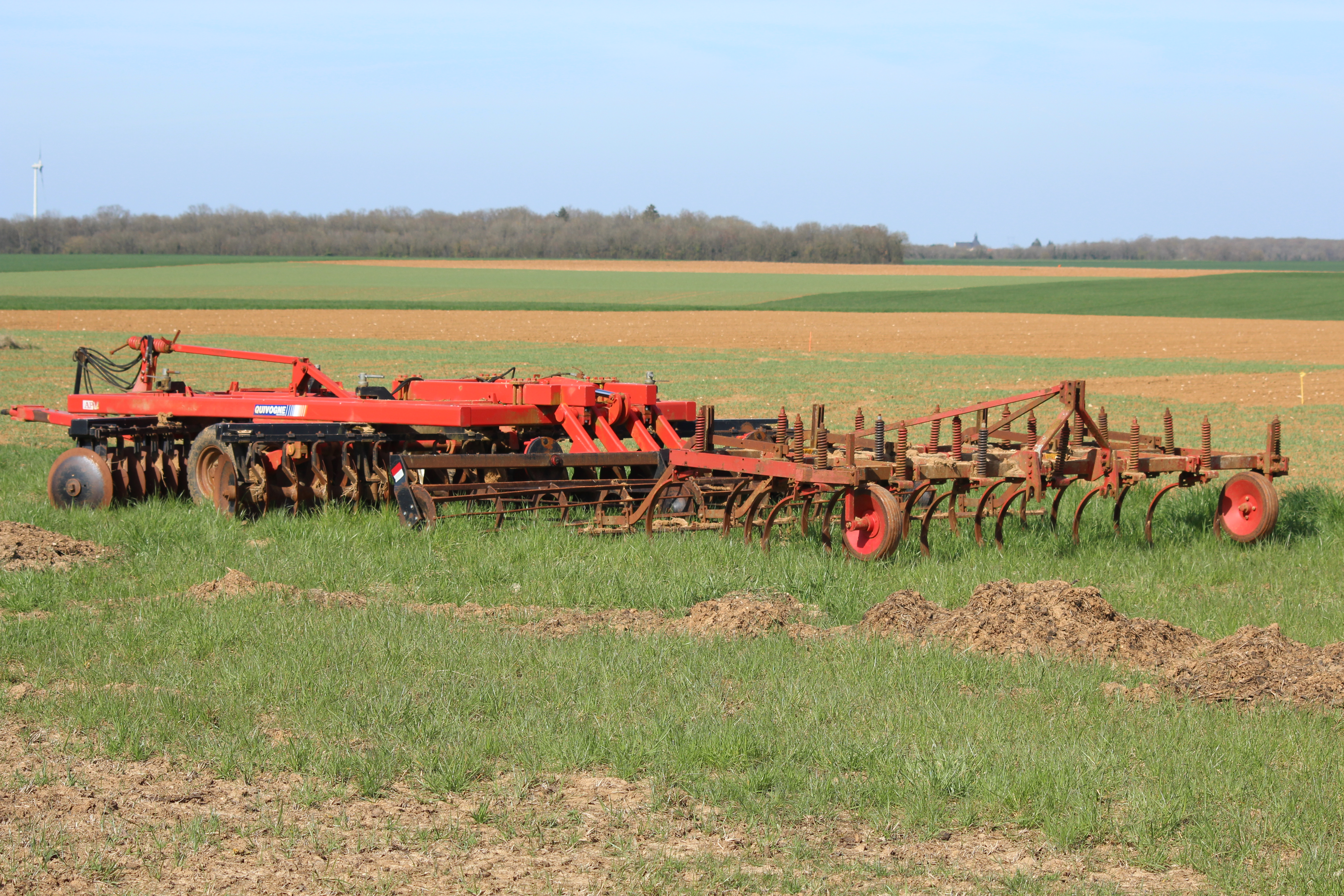 View of Gommerville, Eure-et-Loir, France.